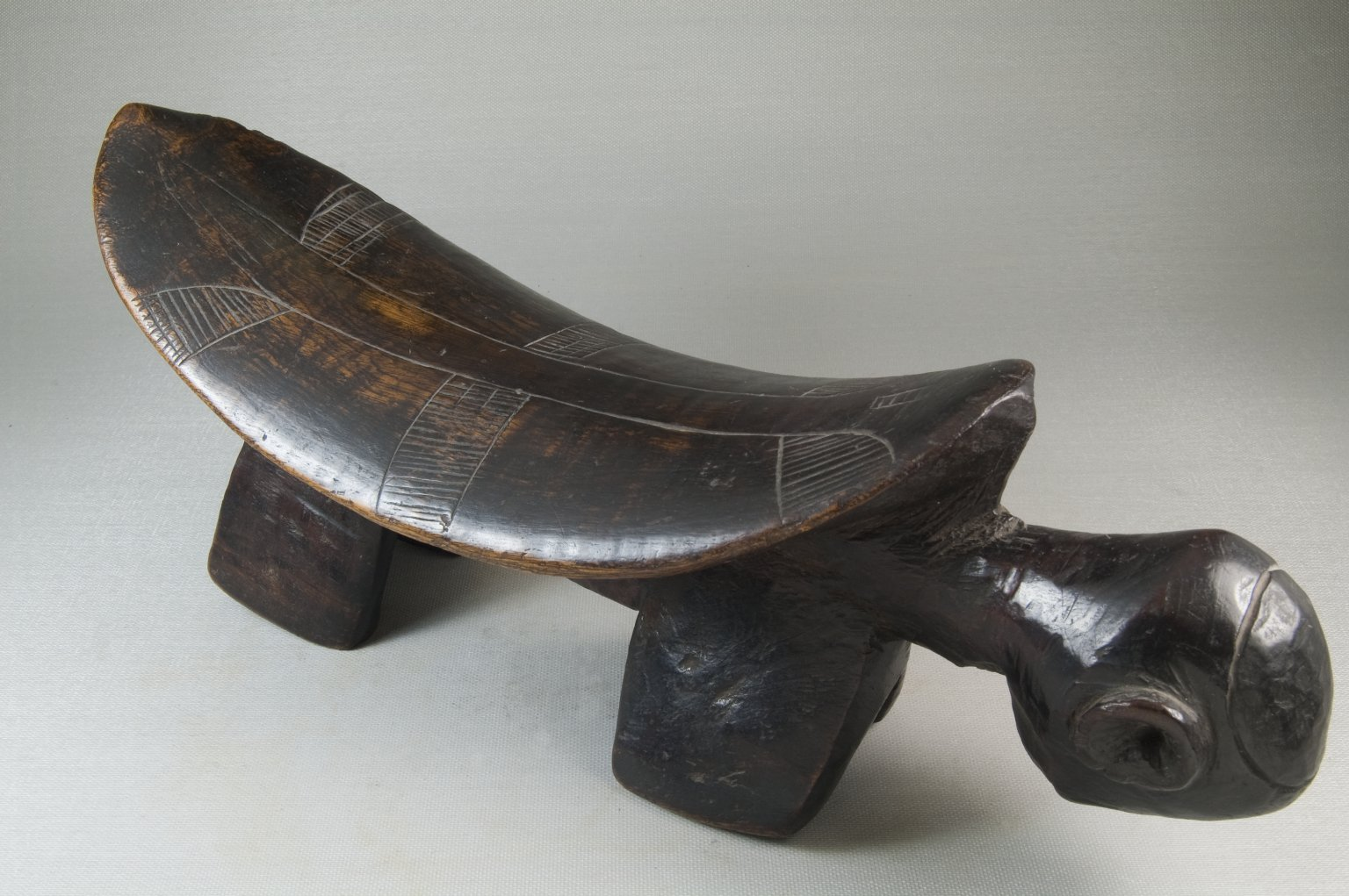 Dark colored wooden stool with glossy patina. Seat is leaf-shaped and slightly scooped. Top is decorated with two incised lines down the center, and three sets of incised bands on each side. Front of seat terminates in a human head, which has a simian quality. Head has two round eyes and ears, a nose, and mouth that is slightly open. The stool has four legs with a centered handle connecting front and back for carrying. Condition: Very good. Signs of wear on edges of seat. A small area of edge is eroded.